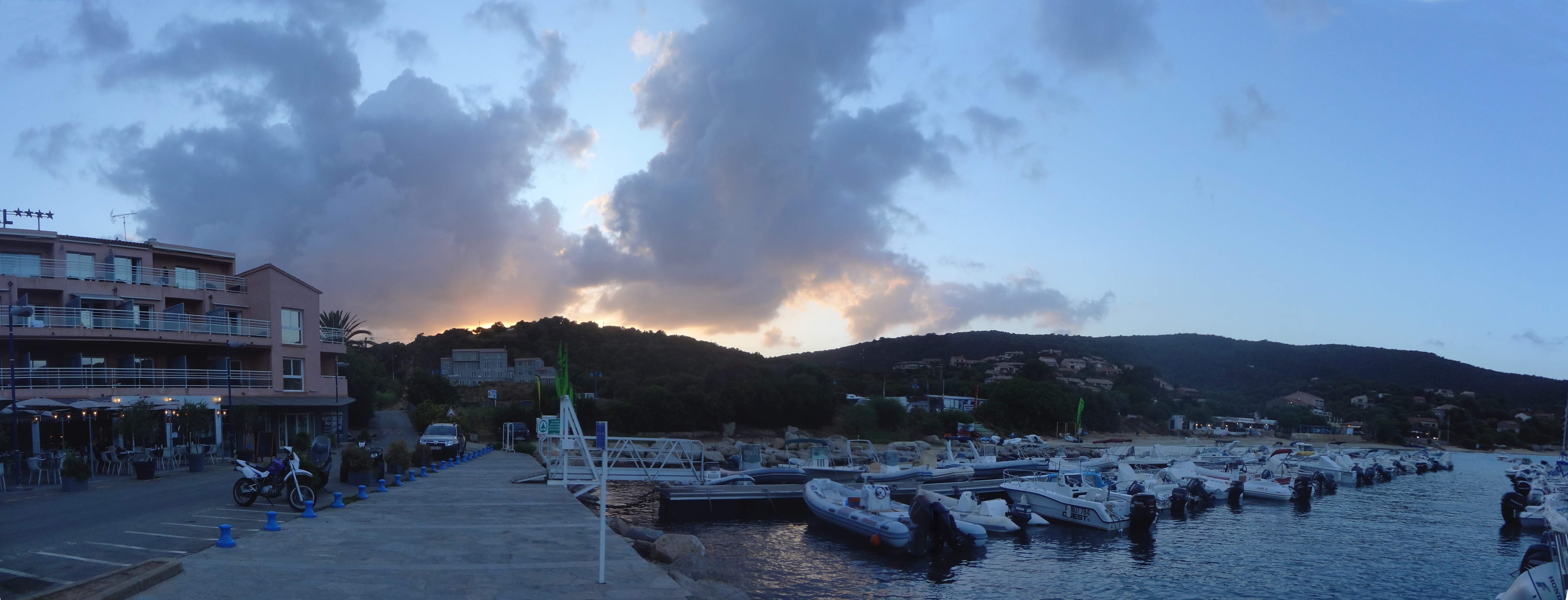 Porto-Polo harbour, Serra-di-Ferro, Corsica.The view only shows a part of the harbour and of the hills around the harbour, just after sun set.